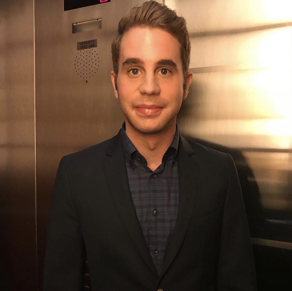 Ben Platt in an elevator in 2017.